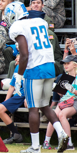 Kerryon Johnson in 2018 (cropped using scissor tool)